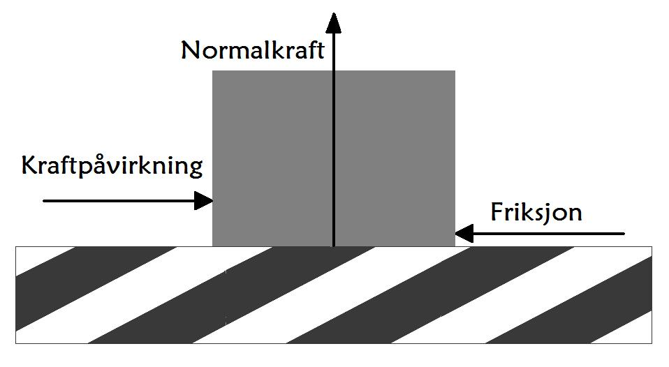 Friction figure